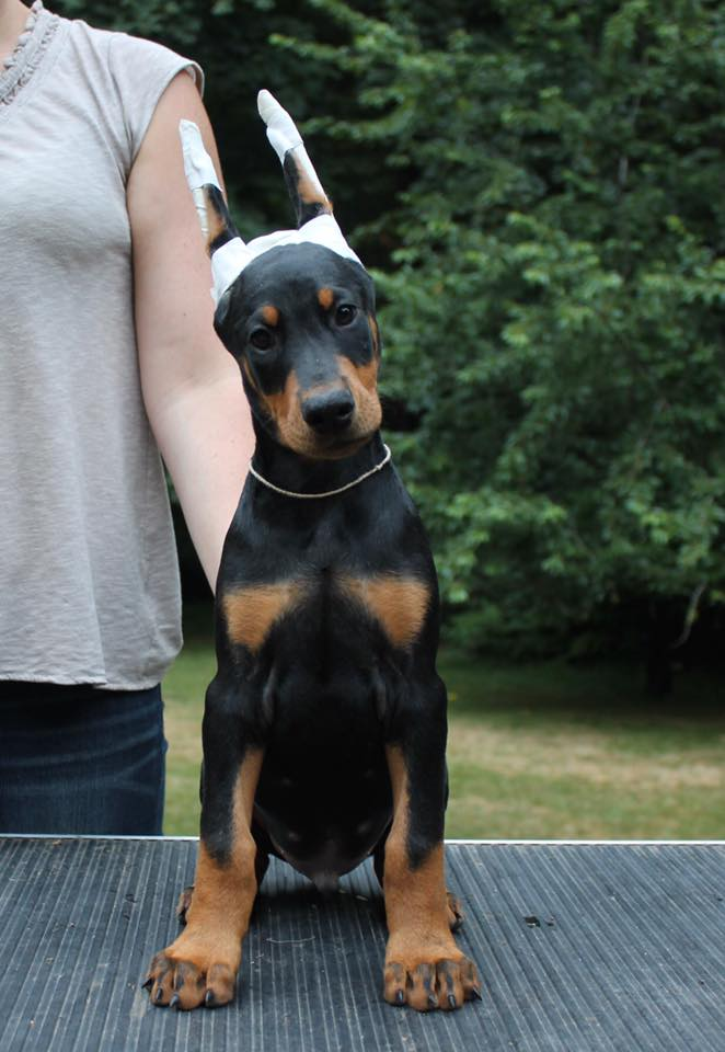 Correctly taped cropped ears on Dobermann puppy